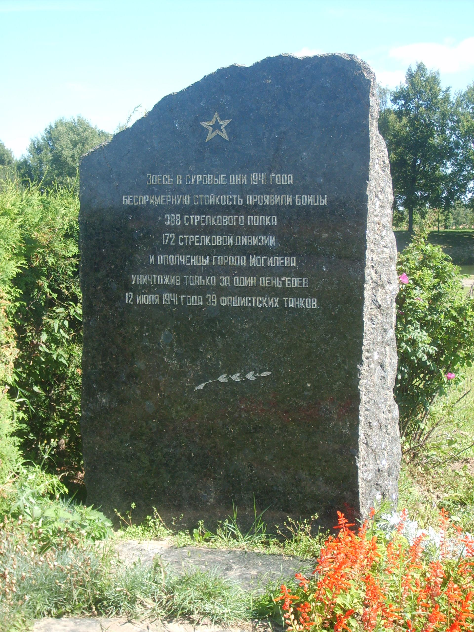 a memorial to Buinichi field, Mogilev